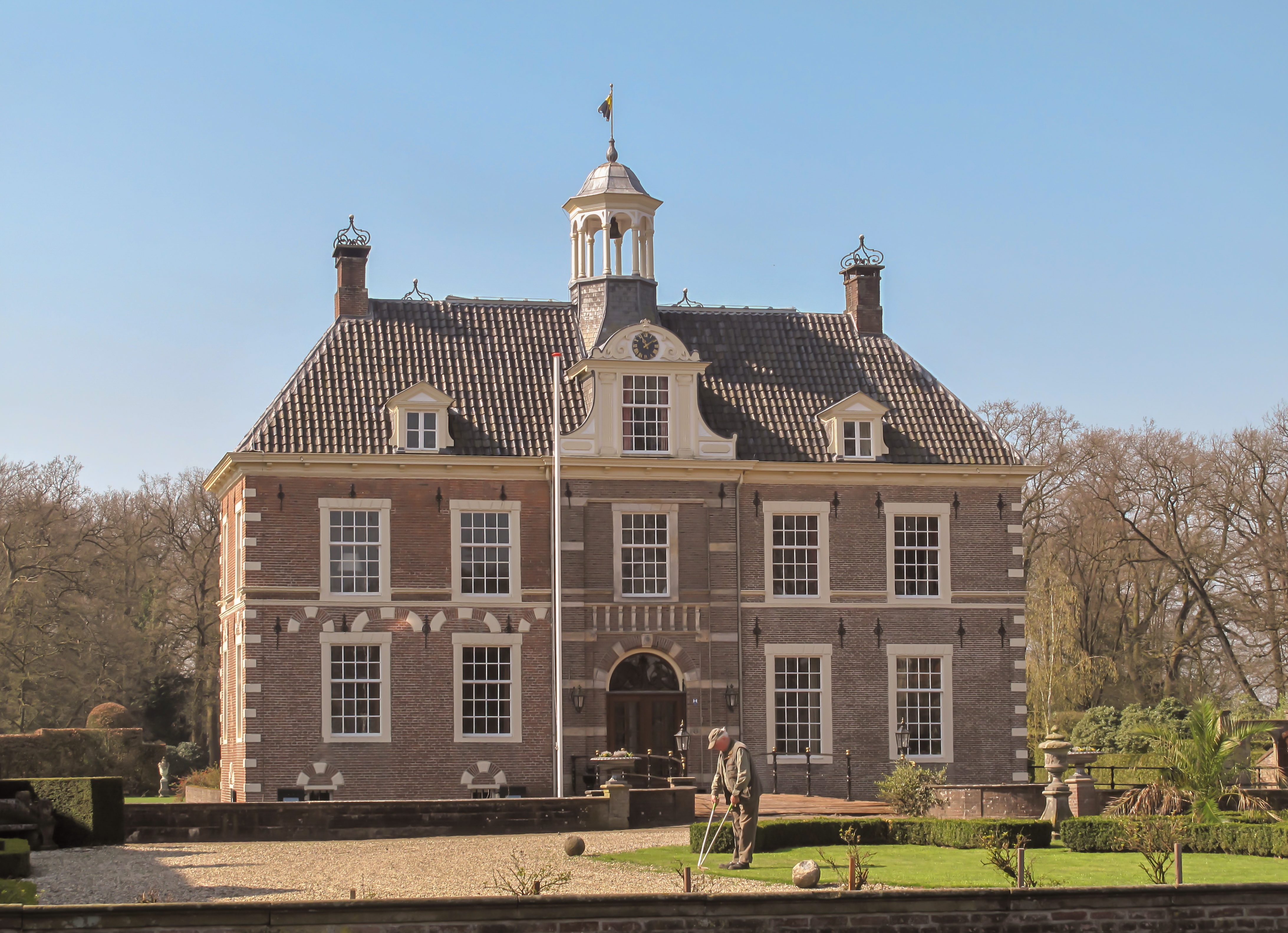 Diepenheim, castle: kasteel Warmelo